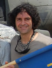 Phil Soussan stands in front of an AH-64D Apache helicopter on Camp Taji, Iraq, Sept. 11, 2008